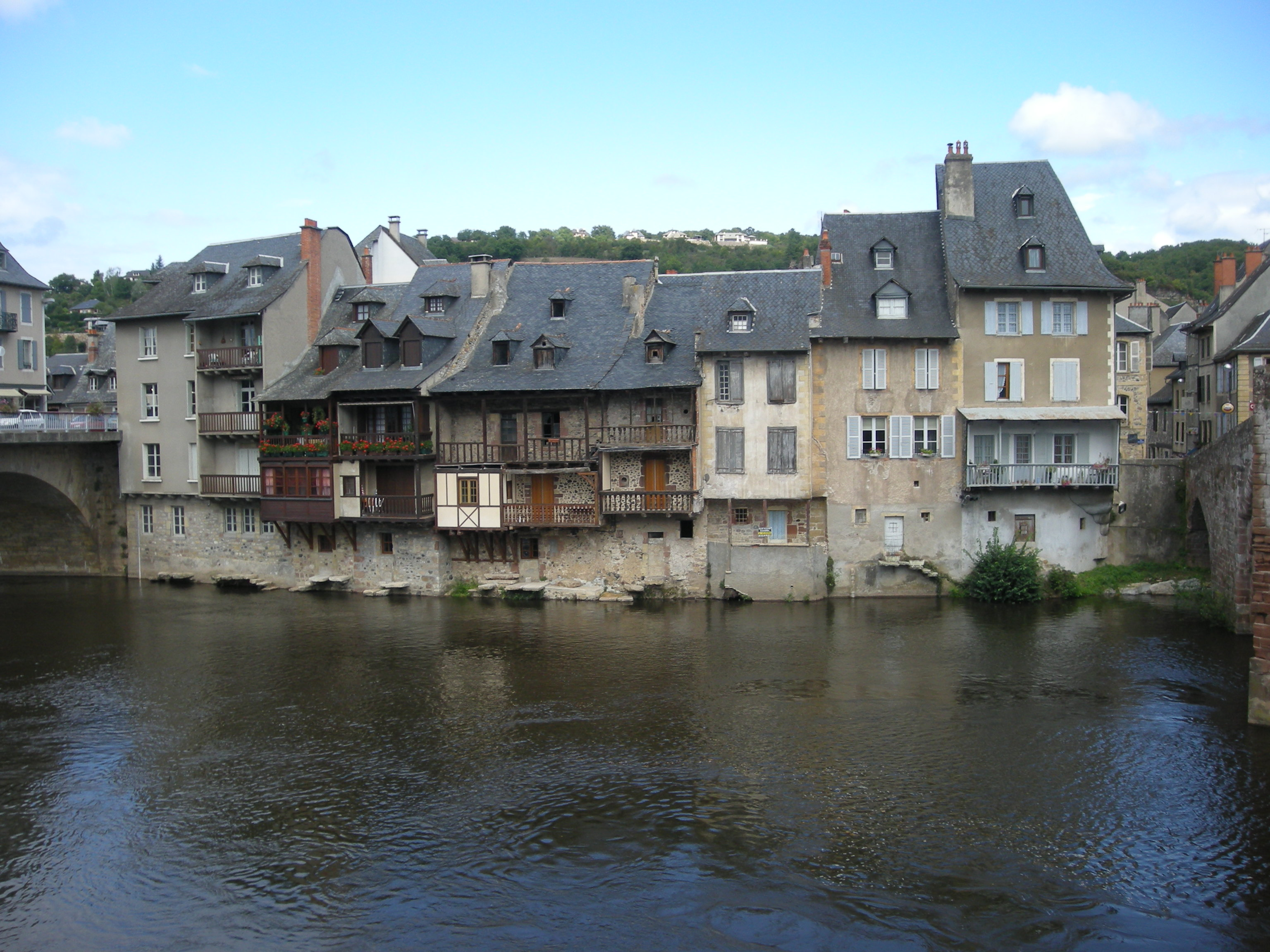 Former tanneries on a bank of Lot River in Espalion (Aveyron, France).